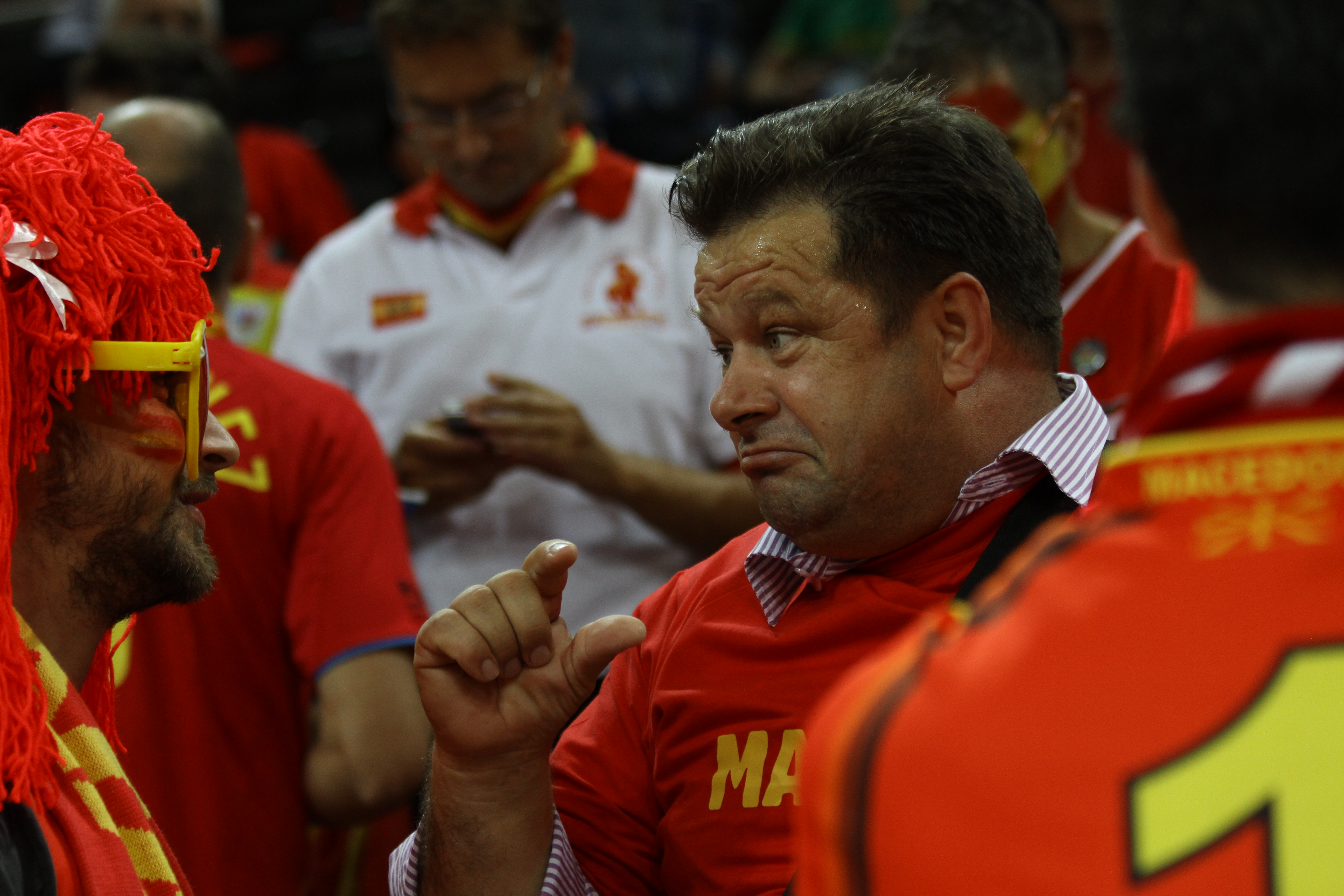 Macedonia national basketball team fans.